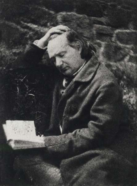 Victor Hugo reading on front of a stone wall, 1853 (?), by Auguste Vacquerie (1819-1895), Musée d'Orsay, Paris.[1]